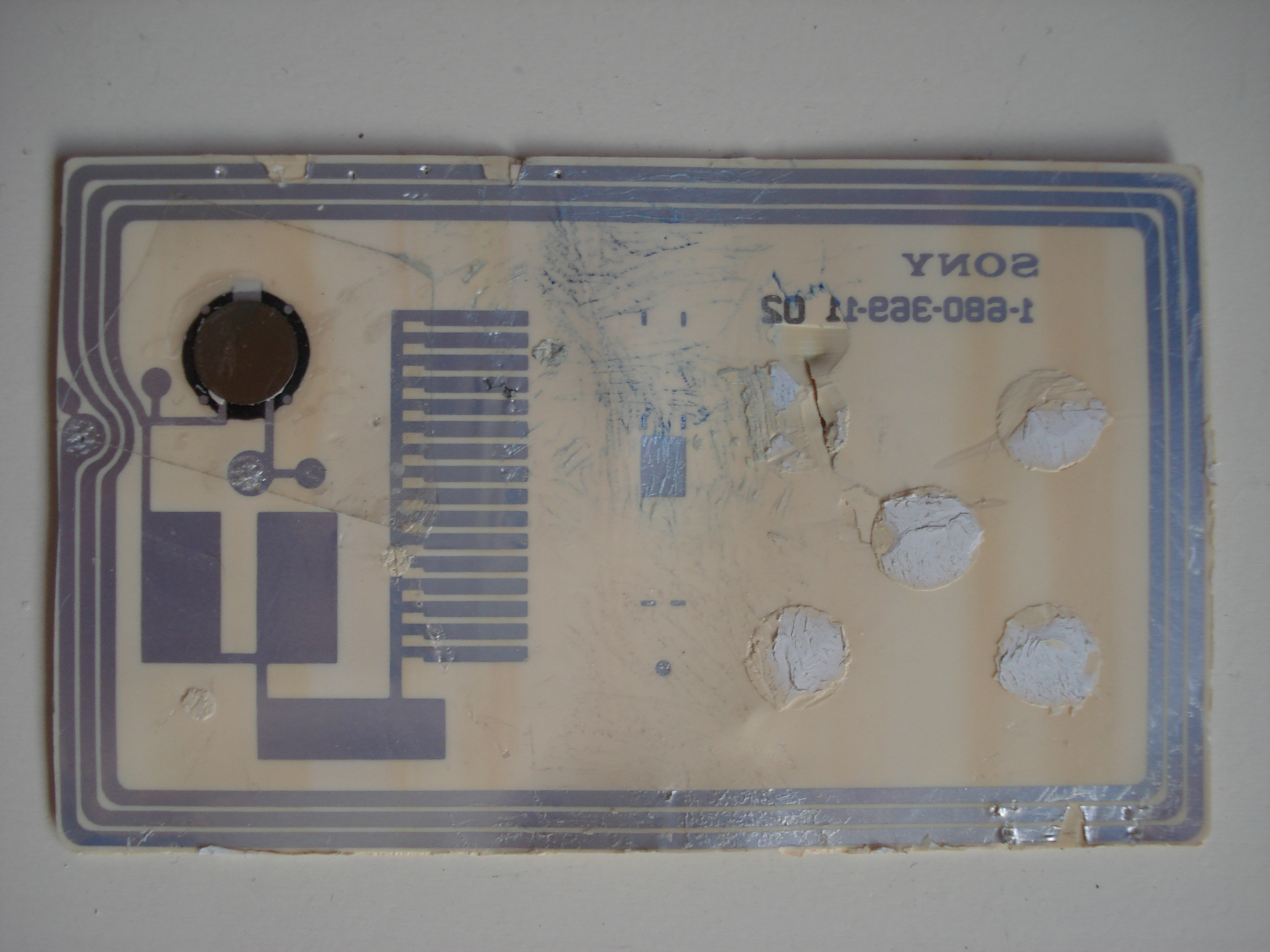 A defaced EZ-Link Card, revealing the internal circuits in it.